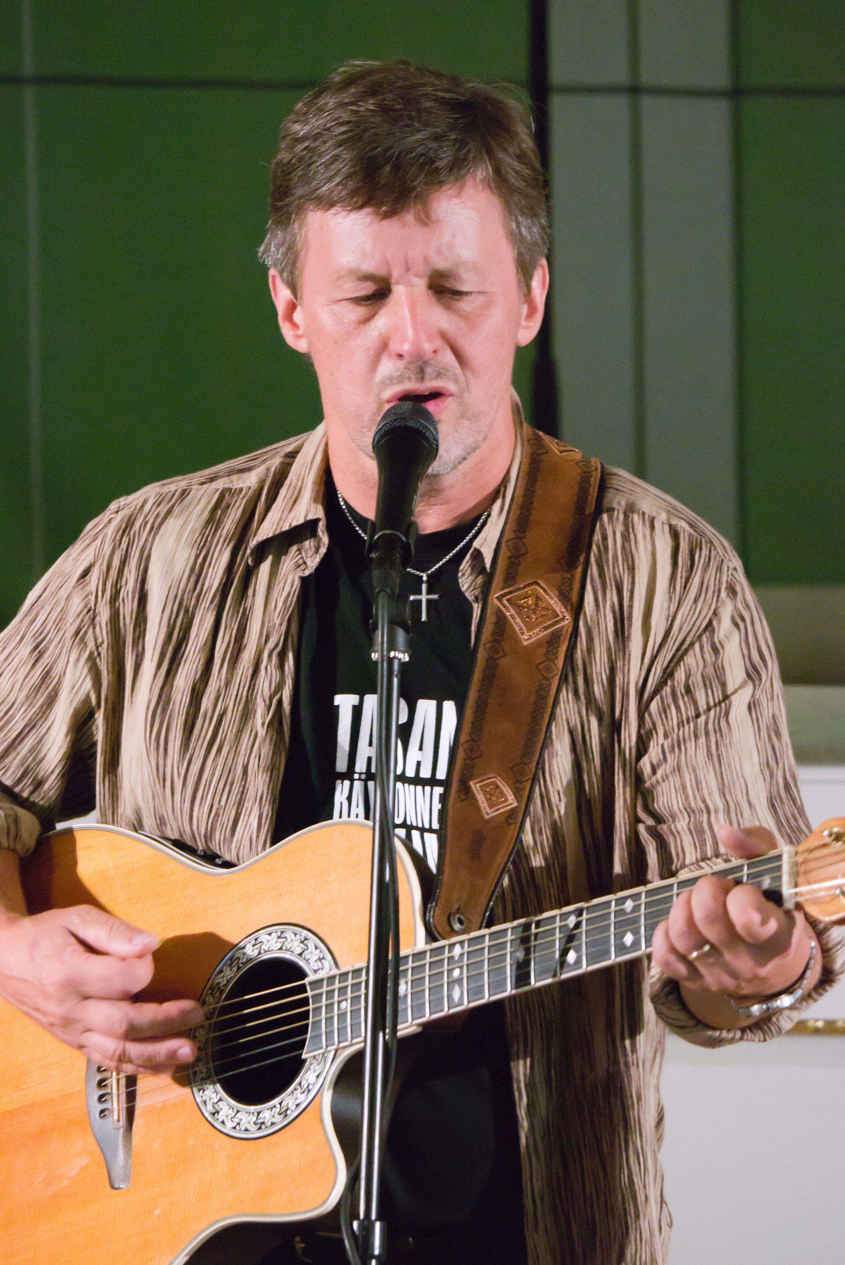 Pekka Simojoki finnish gospel-singer